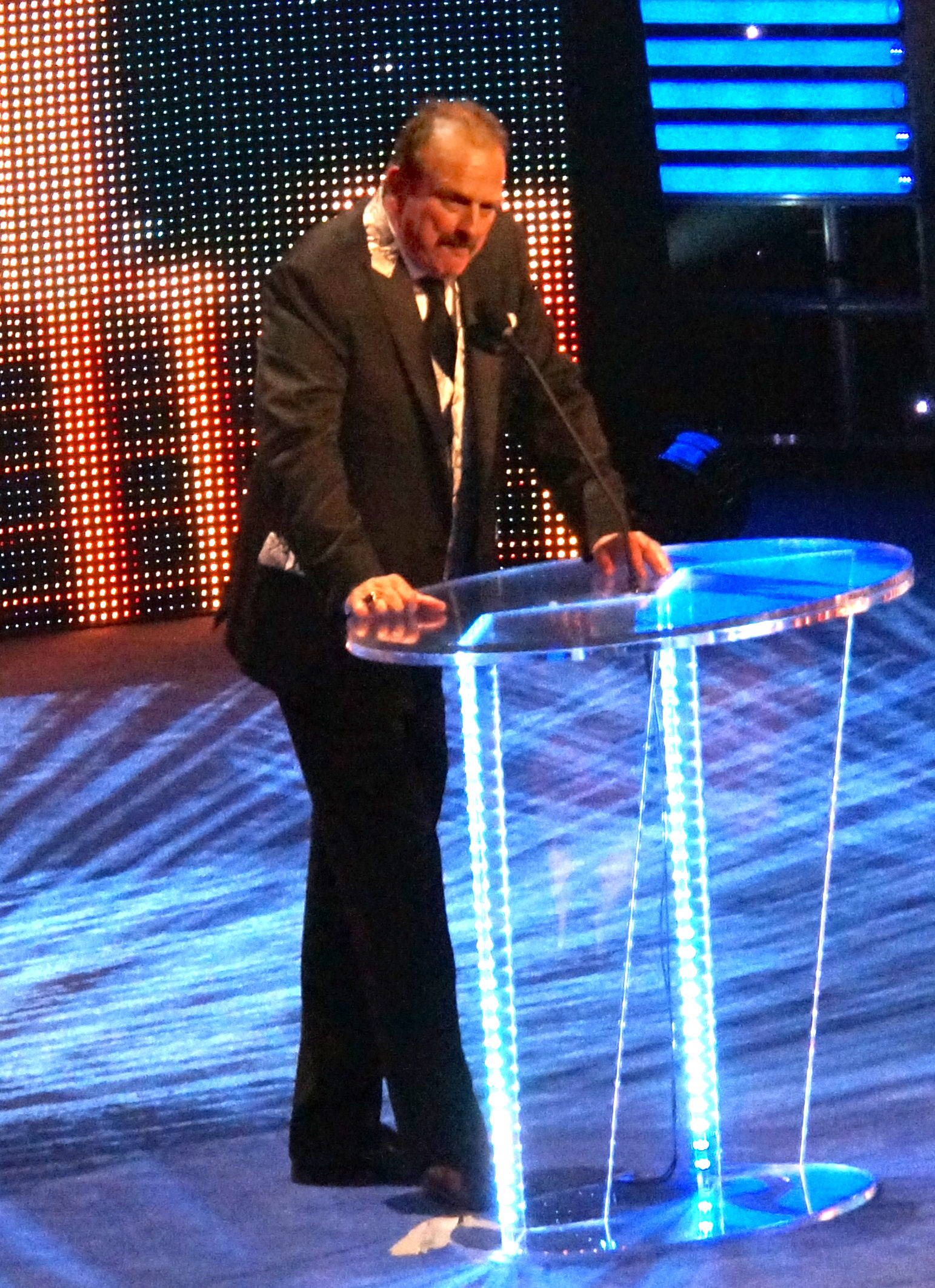 Jake "The Snake" Roberts was inducted into the WWE Hall of Fame on 5 April 2014.